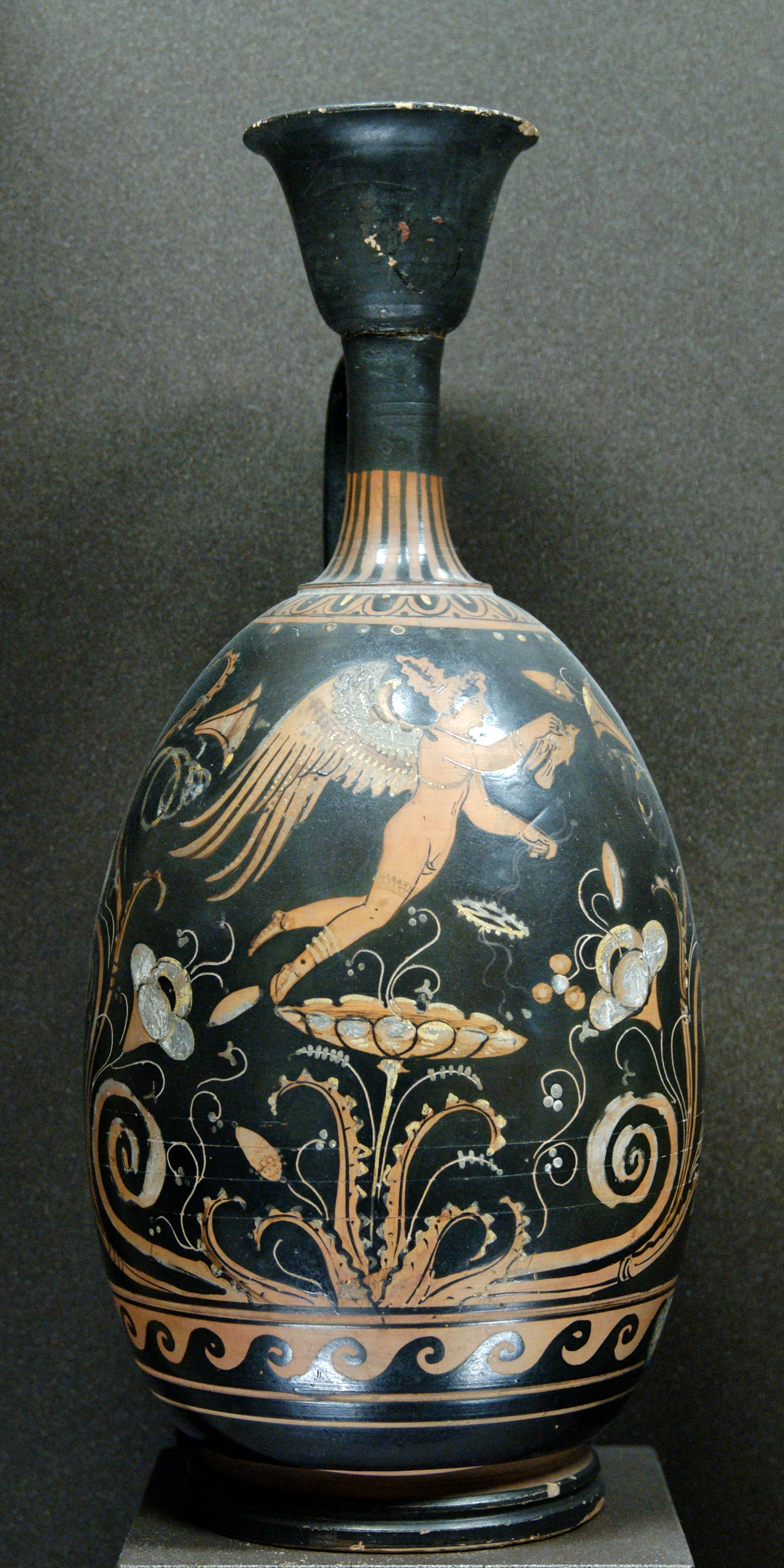 Eros. Apulian red-figured squat lekythos, ca. 340–330 BC.